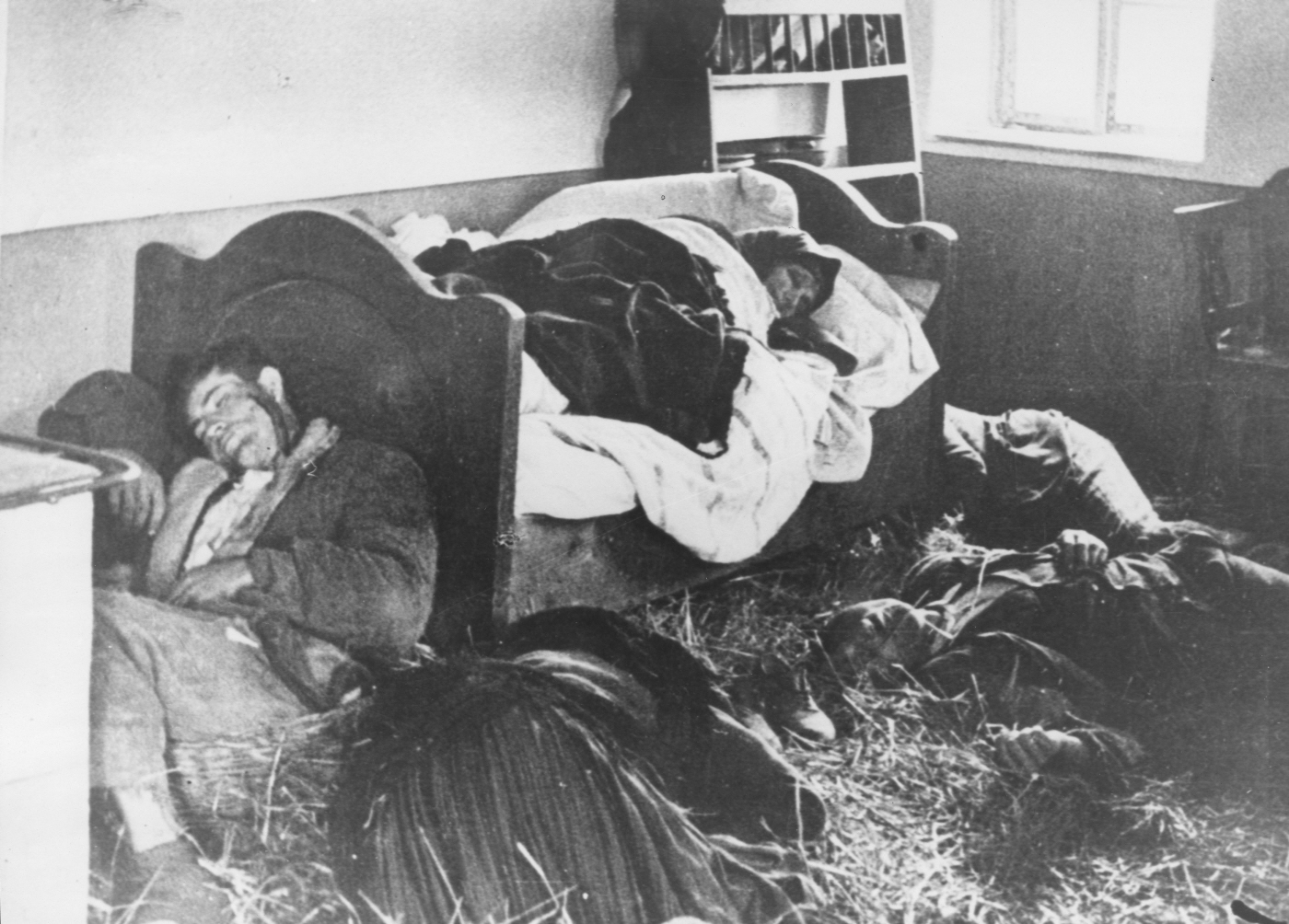 An entire Serbian family lies slaughtered in their home following a raid by the Ustasa militia.